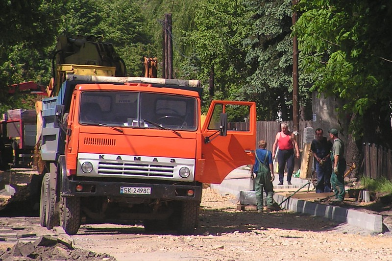 Russian truck Kamaz (KAMAЗ) type 5511.